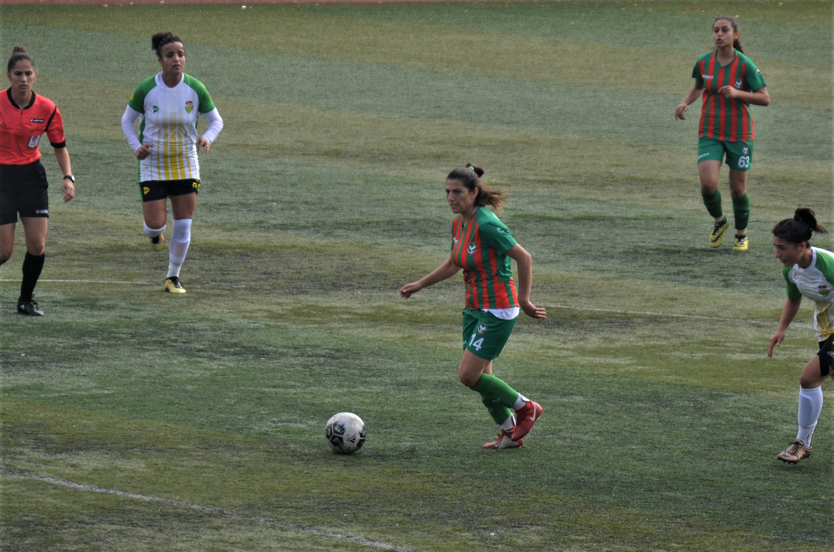 Remziye Bakır of Amed S.K. in the 2019-20 Turkish Women's First League